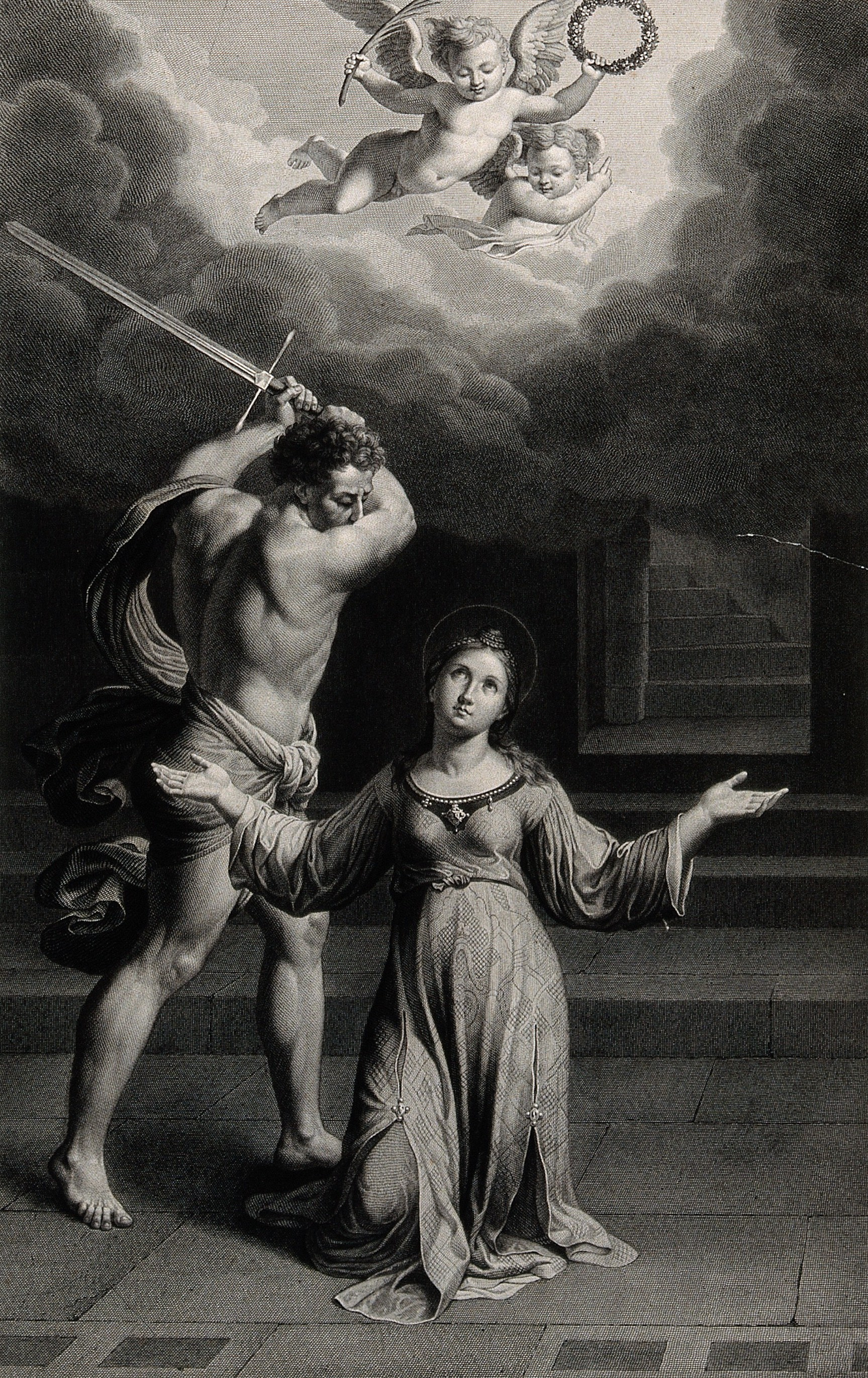 Saint Cecilia. Engraving by C.M.F. Dien, 1827, after Giulio Romano. Iconographic Collections